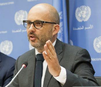 Foto: UN/Rick Bajornas